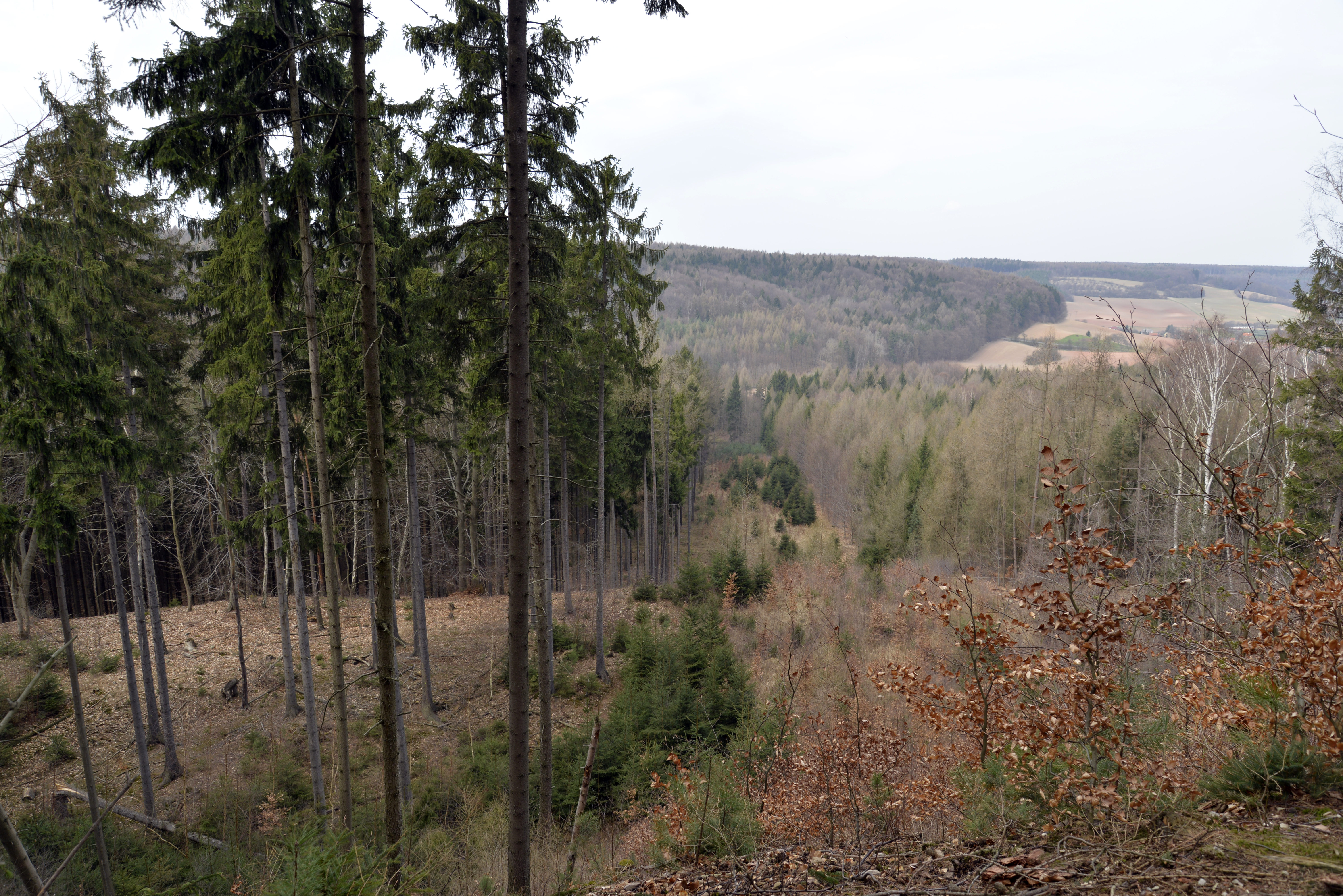 Malý a Velký Štít (National natural reserve)